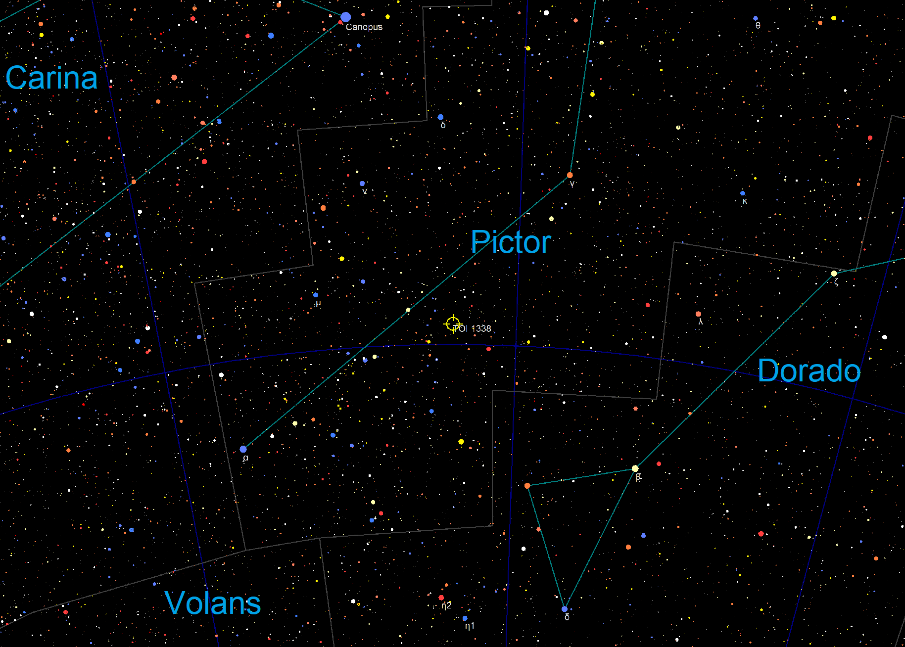 TOI 1338 position in Pictor